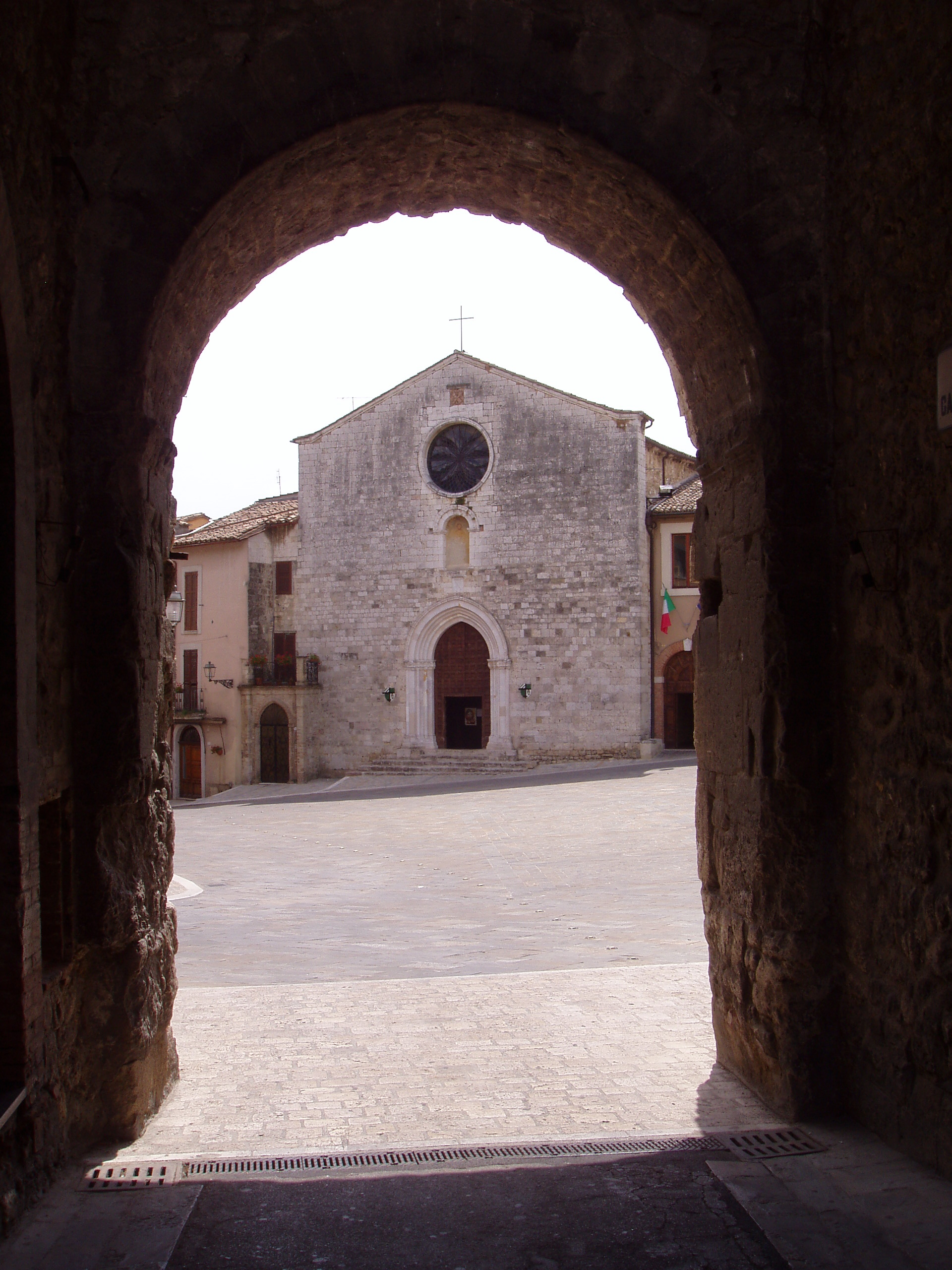 Church was positioned to face the main city gate